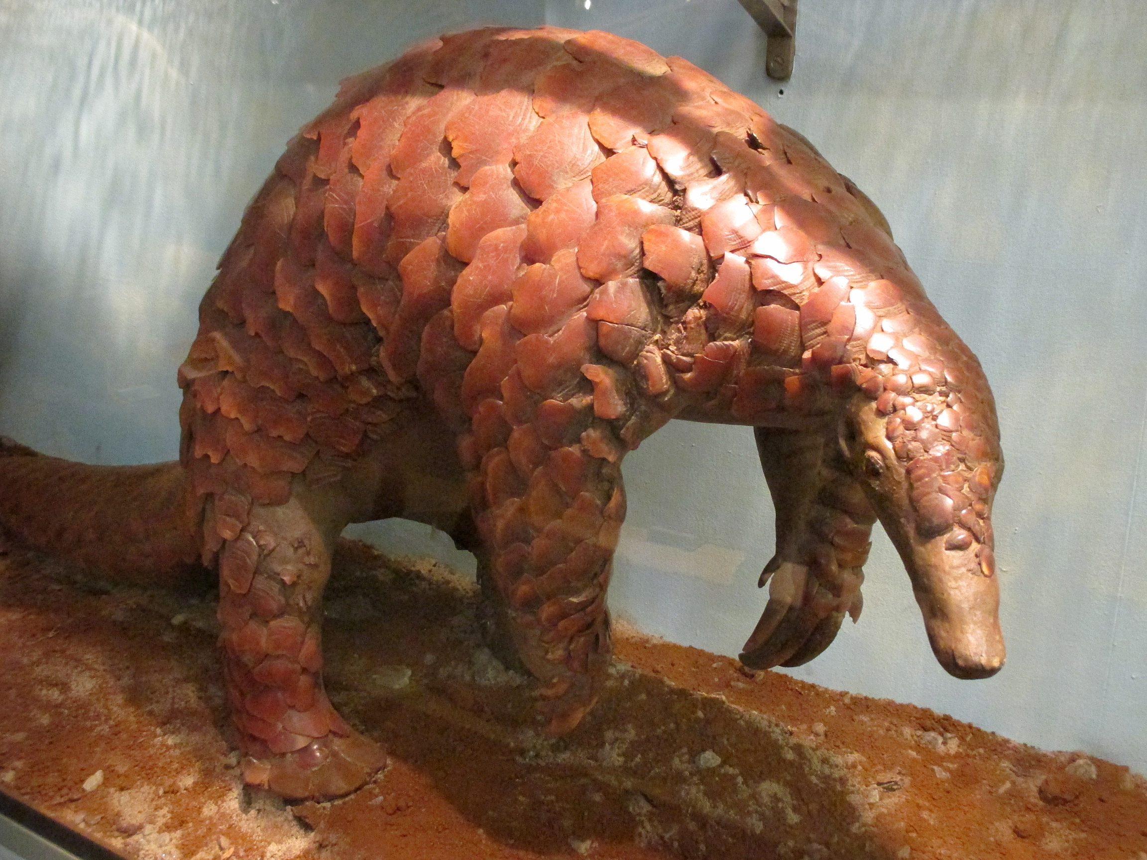 A taxidermied Giant Pangolin (Smutsia gigantea) at Göteborgs Naturhistoriska Museum, Gothenburg, Sweden.